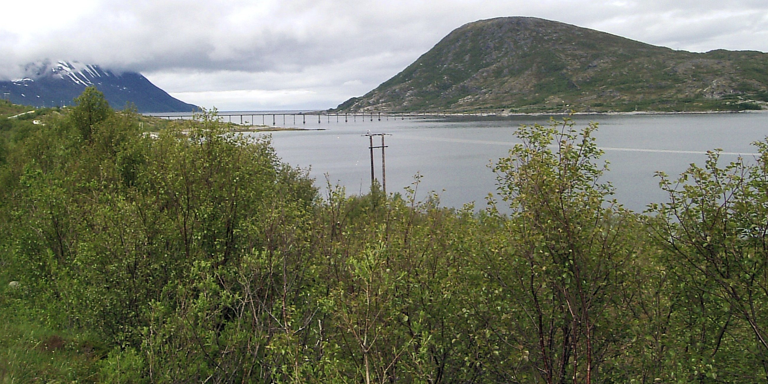 Skjervøy Bridge, Troms, Norway